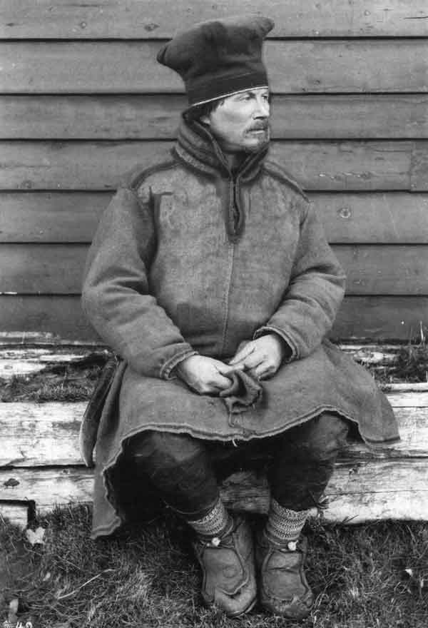 Lars Jacobsen Hætta (1834-1896) from Kautokeino in Norway, on a photo by Sophus Tromholt from 1882 or 1883.Davvisámegiella: Guovdageaidnulaš Jáhkoš-Lásse dahje Lars Jacobsen Hætta (1834-1896). Sus lea badjelis gákkesgákti ja čiehkagahpir. Govven: Sophus Tromholt jagi 1882 dahje 1883.